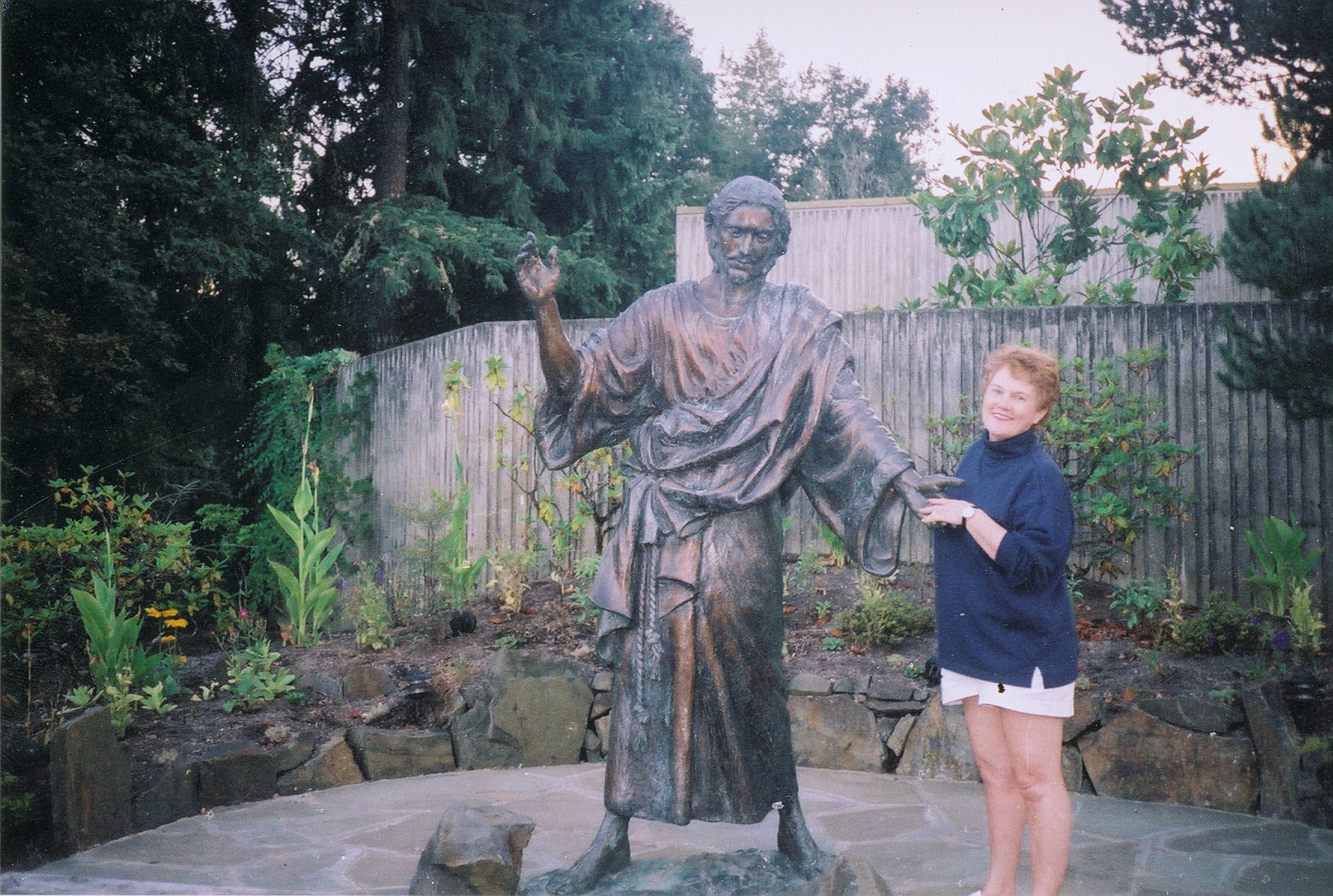 The above photograph, taken in 1997, depicts an employee of Living Enrichment Center with "The Welcoming Jesus" statue of Jesus Christ. The statue was commissioned by world famous sculptor Lorenzo Ghiglieri specifically for Living Enrichment Center. I release my ownership of this image, taken at Living Enrichment Center a few years back.